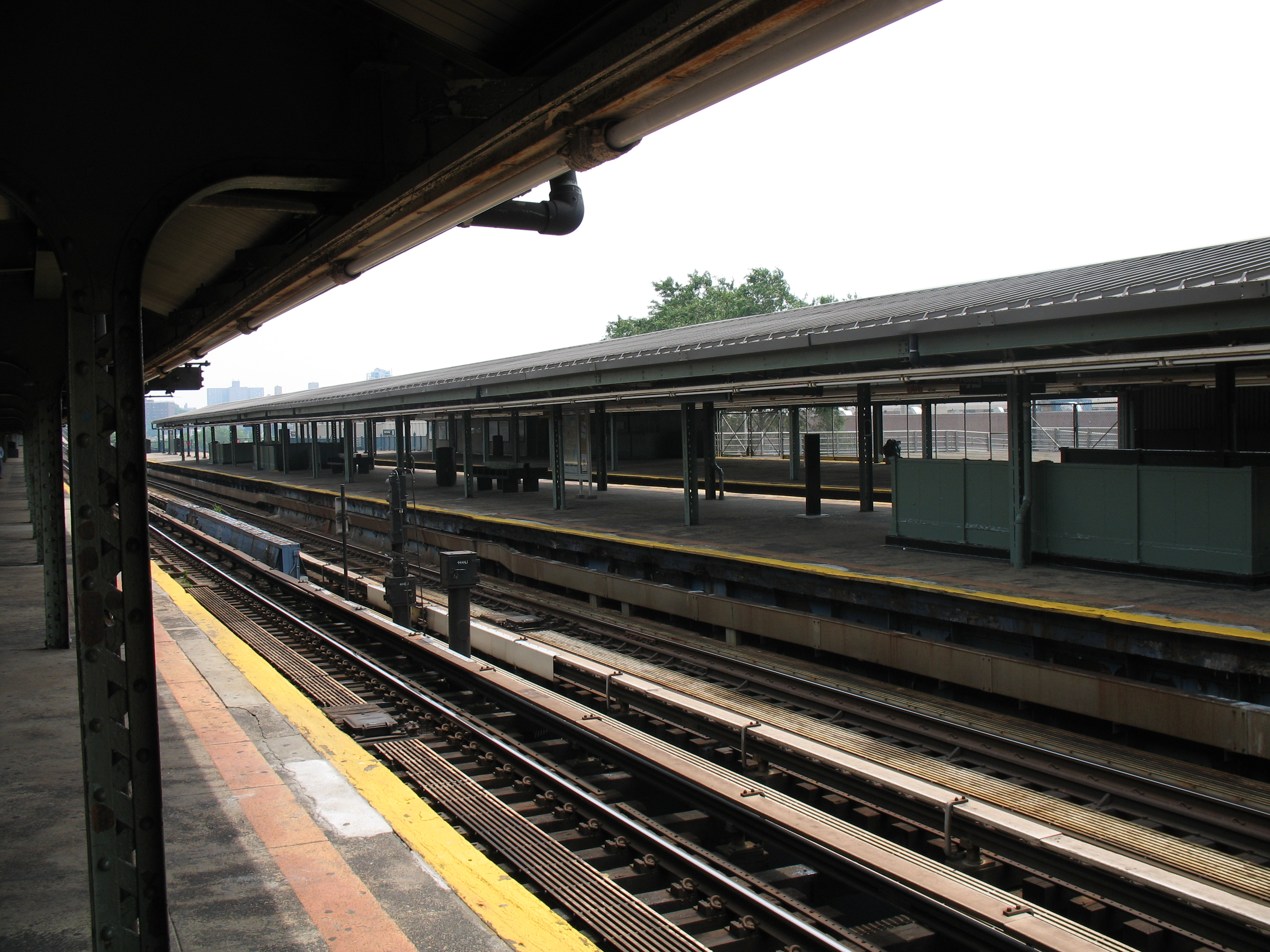 The Willets Point-Shea Stadium subway station. Queens, New York.